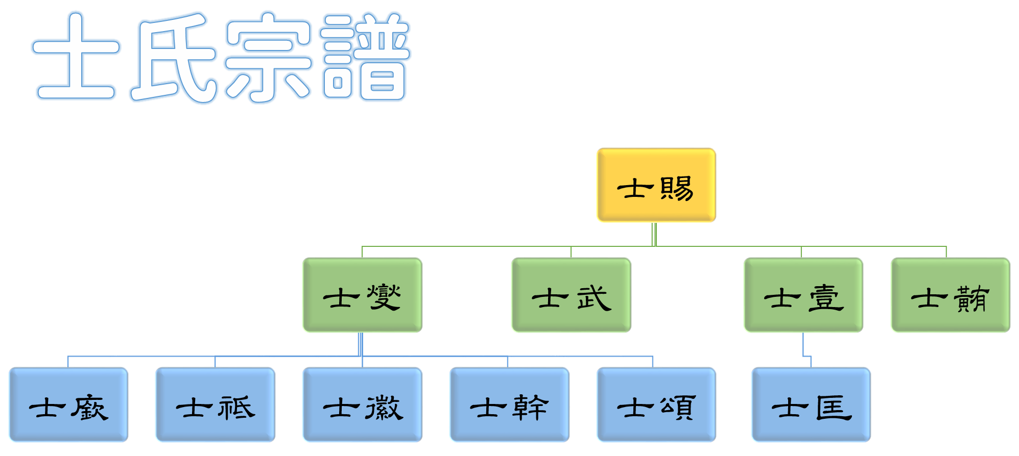 Family Tree of Shi Xie/士燮（137-226）一支的族譜。